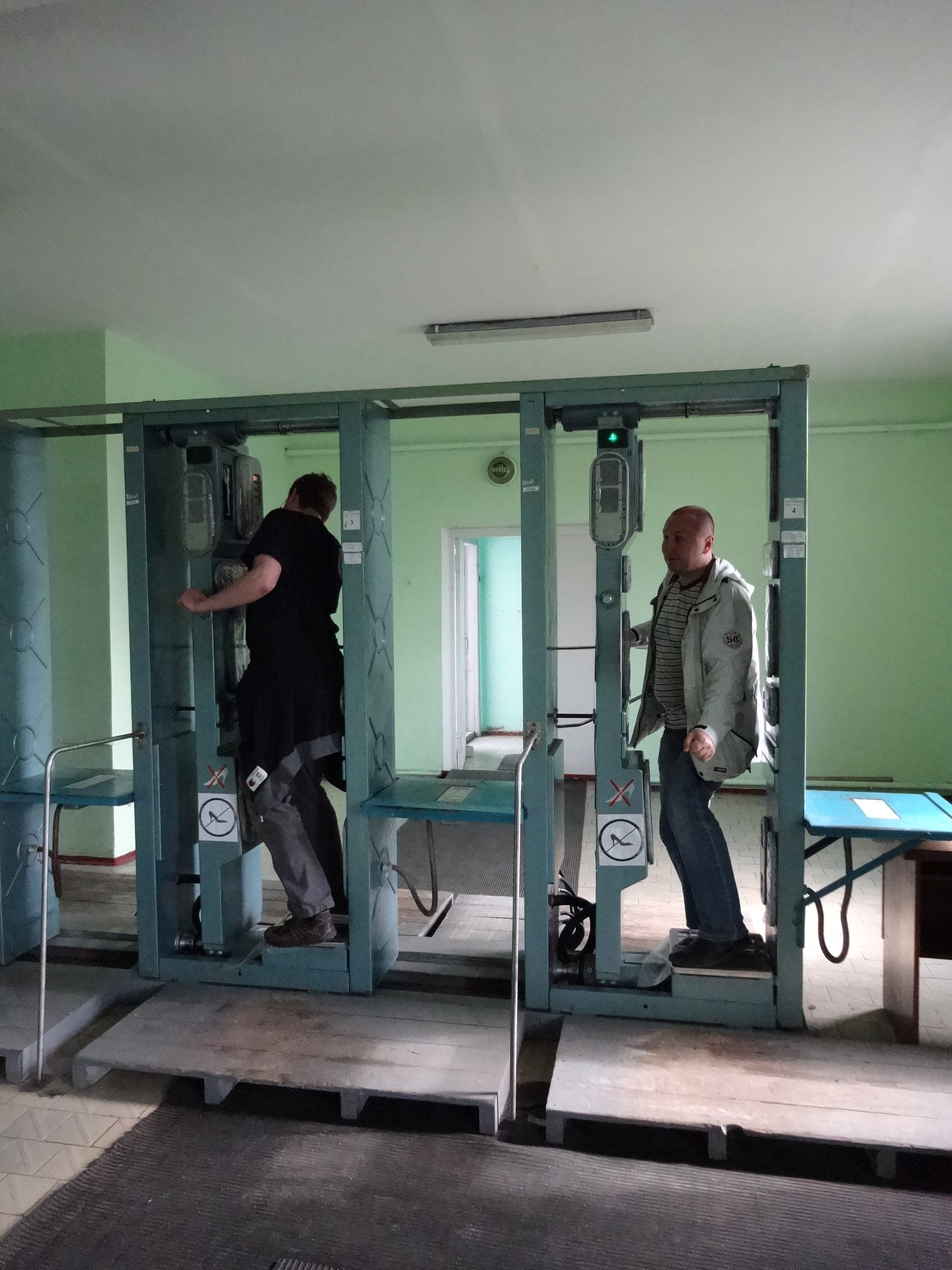 Contamination check at exclusion zone exit